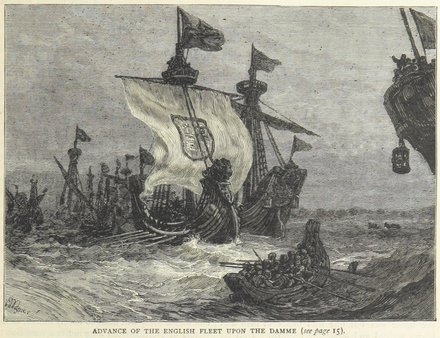 The English attack during the 1213 Battle of Damme.